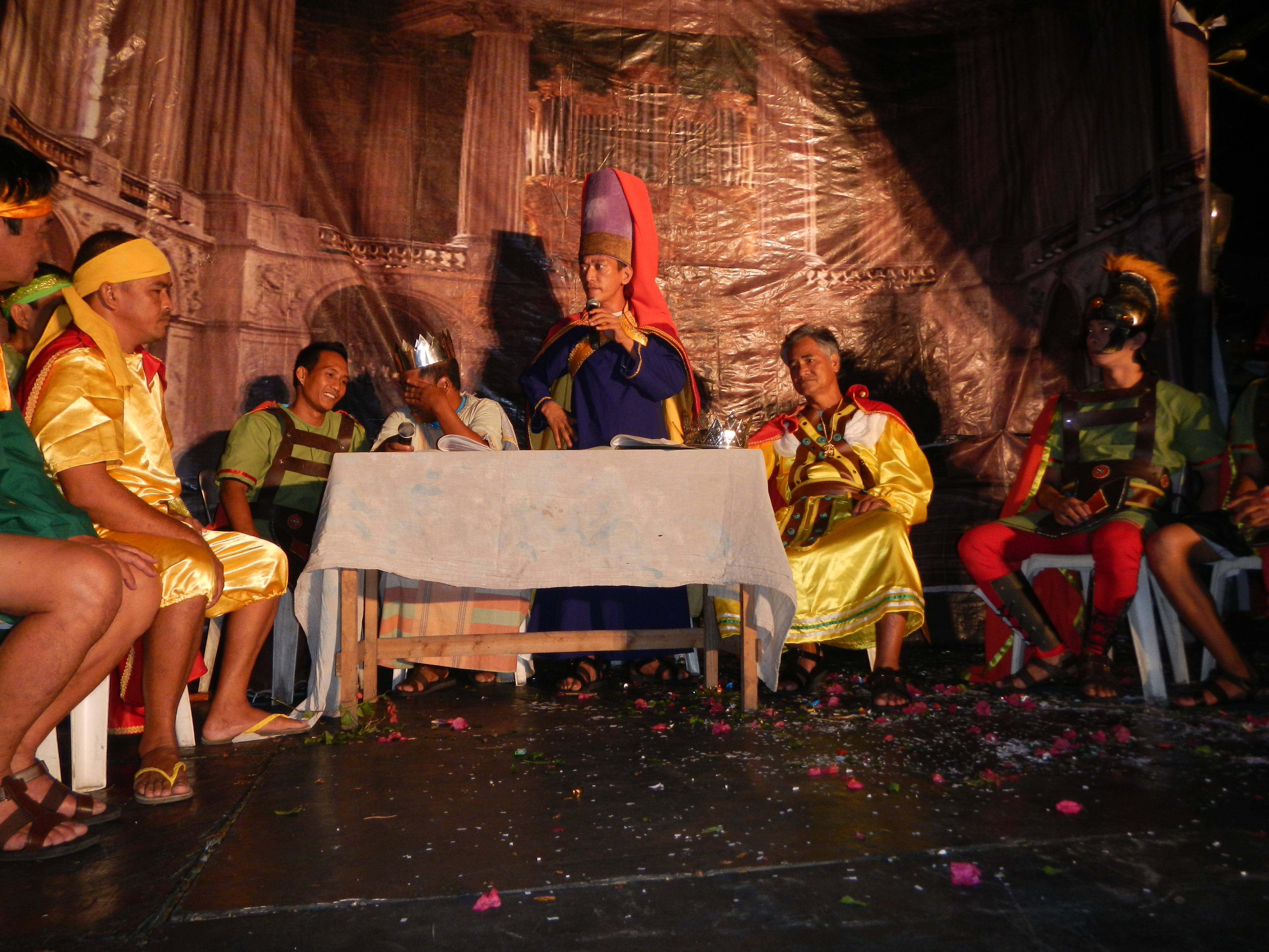 2013 Senakulo, in Poblacion, Baliuag, Bulacan[1] [2]Senakulo In The Philippines[3]The Senakulo (from the Spanish cenaculo) is a Lenten play that depicts events from the Old and New Testaments related to the life, sufferings, and death of Christ. [4] [5][6] [7][8] Passion play[9]is a dramatic presentation [10] depicting the Passion of Jesus Christ: his trial, suffering and death. It is a traditional part of Lent in several Christian denominations, particularly in Catholic tradition.[11] [12]The predominantly Catholic Philippines has Passion plays called Senakulo, named after the Upper room. Companies and community groups perform the Senakulo during Semana Santa (Holy Week), using decades or even centuries-old scripts derived from the Bible and folk tradition that was later set down in poetic or prosaic form. Many use costumes and scenery that follow traditional European iconography instead of actual historical realism, although there are those that prefer the latter style. Some towns use ropes to hold actors on crosses while other towns use actual nails.[1] One of the more popular Passion plays is Ang Pagtaltal sa Balaan Bukid in Jordan, Guimaras, which began in 1975 and draws some 150,000 visitors a year[2] Some people perform crucifixions outside of Passion plays to fulfill a panata (vow for a request or prayer granted), such as the famous penitents in Barangay San Pedro Cutud, San Fernando, Pampanga.[13]'Pagtaltal sa Balaan Bukid' will retell the world's greatest story[14][15][16][17][18]